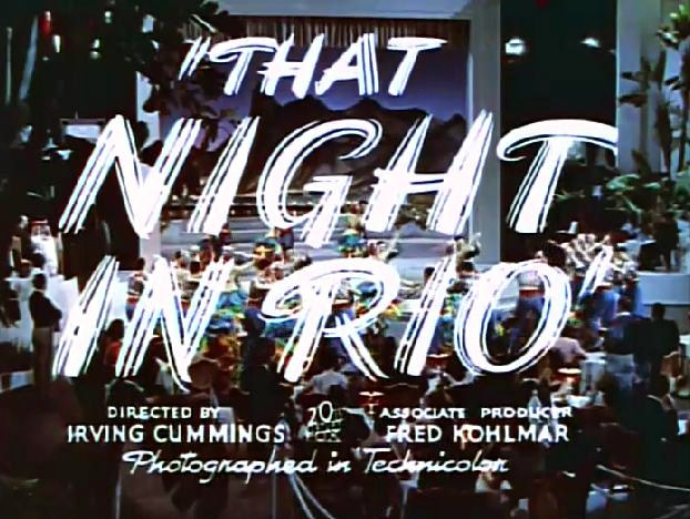 That Night in Rio - trailer (cropped screenshot)